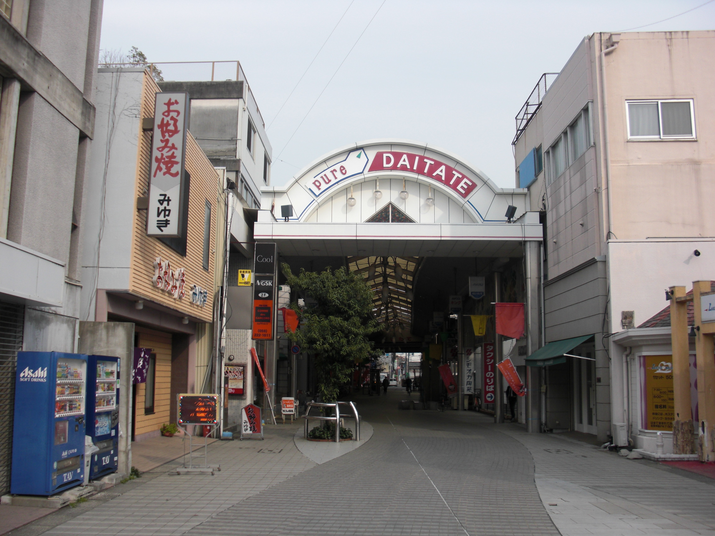 This is a landscape of Daimon, Tsu, Mie, Japan.